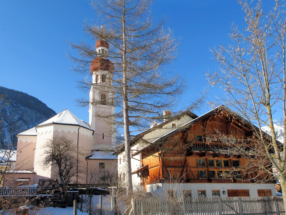 Village Nassereith, Church at Nassereith